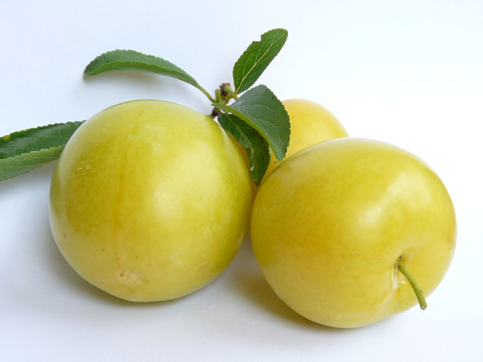 Prugne 'Goccia d'oro'